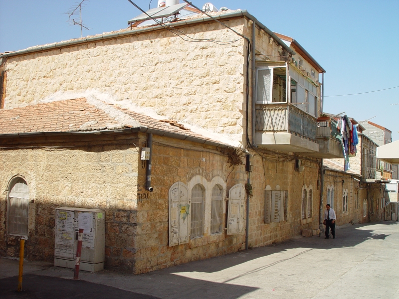 Jerusalem, Sha'arei Tsedek neighborhood, Navon st.